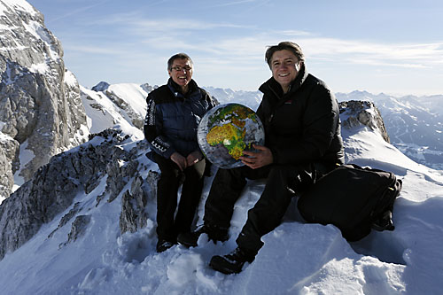 Mr. Kurt Scheidl (environmental analyst / left) and Mr. Werner Boote (film director) with globe at Dachstein-glacier in Austria